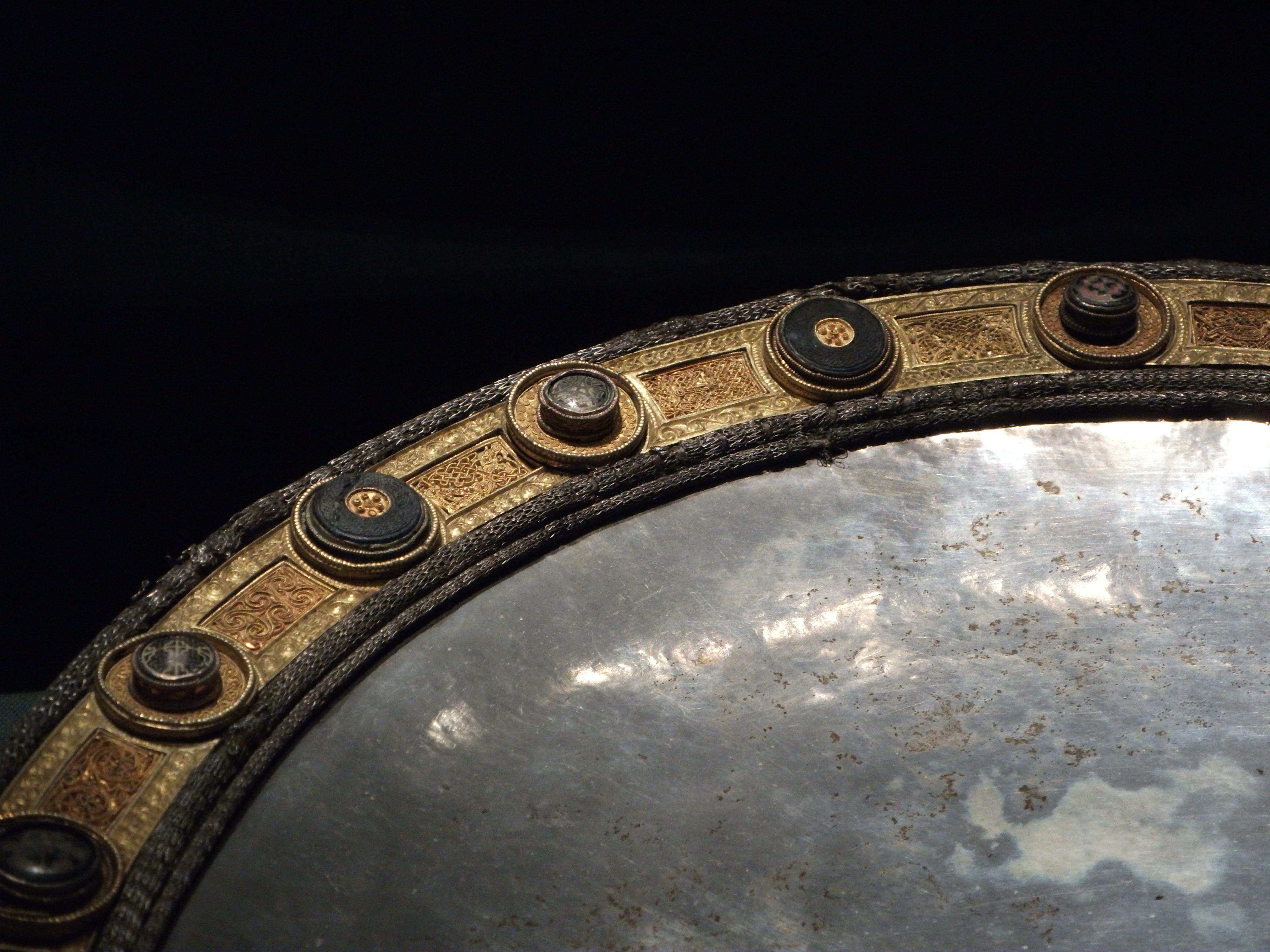 Detail of the Derrynaflen Paten in the National Museum of Ireland, Dublin